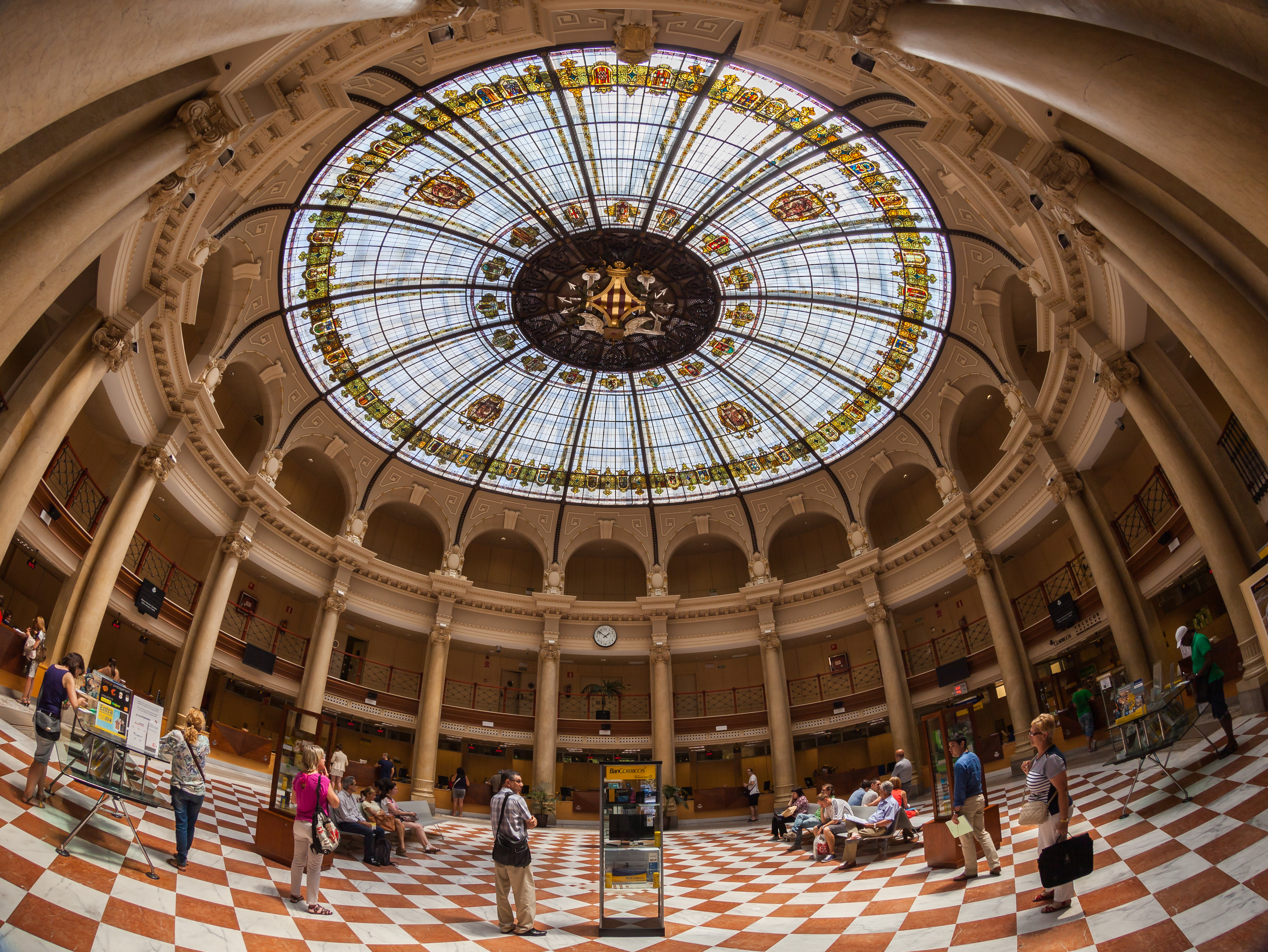 Post office, Valencia, Spain